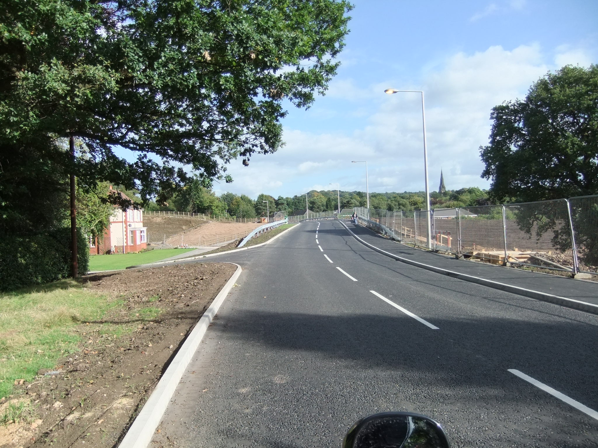 Brook Lane, Alderley Edge, Cheshire, England: new bridge over bypass now open